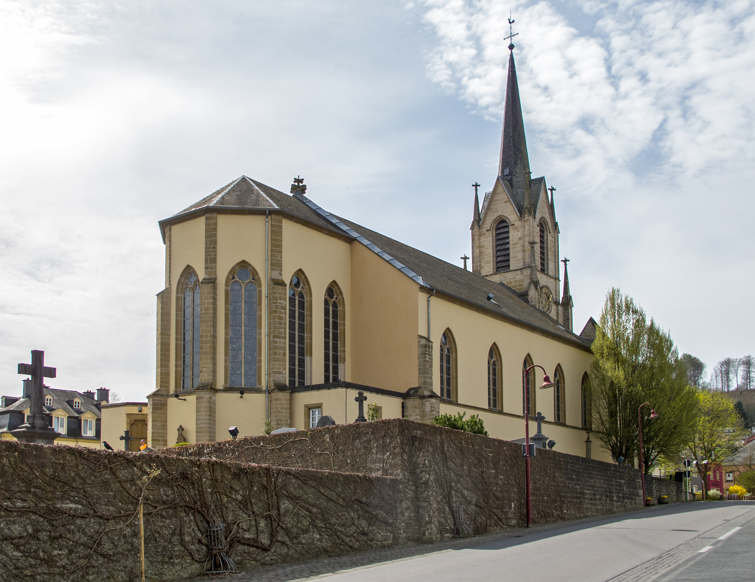 Church of Steinsel